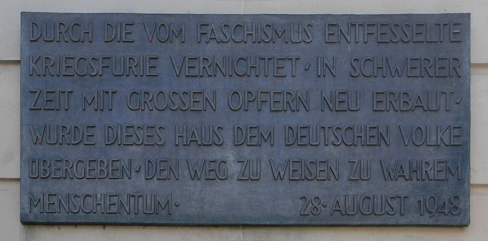 Memorial plaque, Deutsches Nationaltheater und Staatskapelle Weimar, Theaterplatz, Weimar, Germany